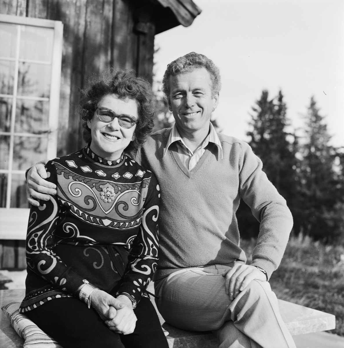 The Norwegian actress Tordis Maurstad (1901–1997) and her son, the actor Toralv Maurstad (b. 1926).